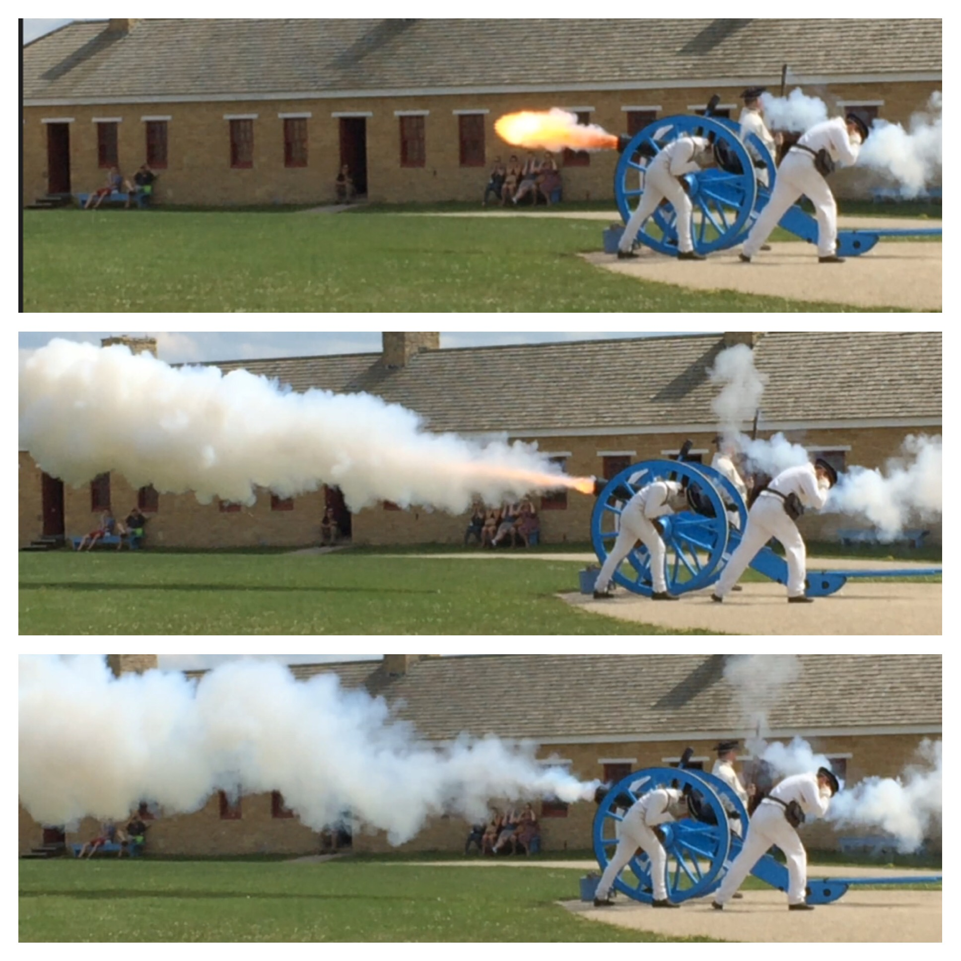 The firing of a 6 pound cannon at Fort Snelling MN